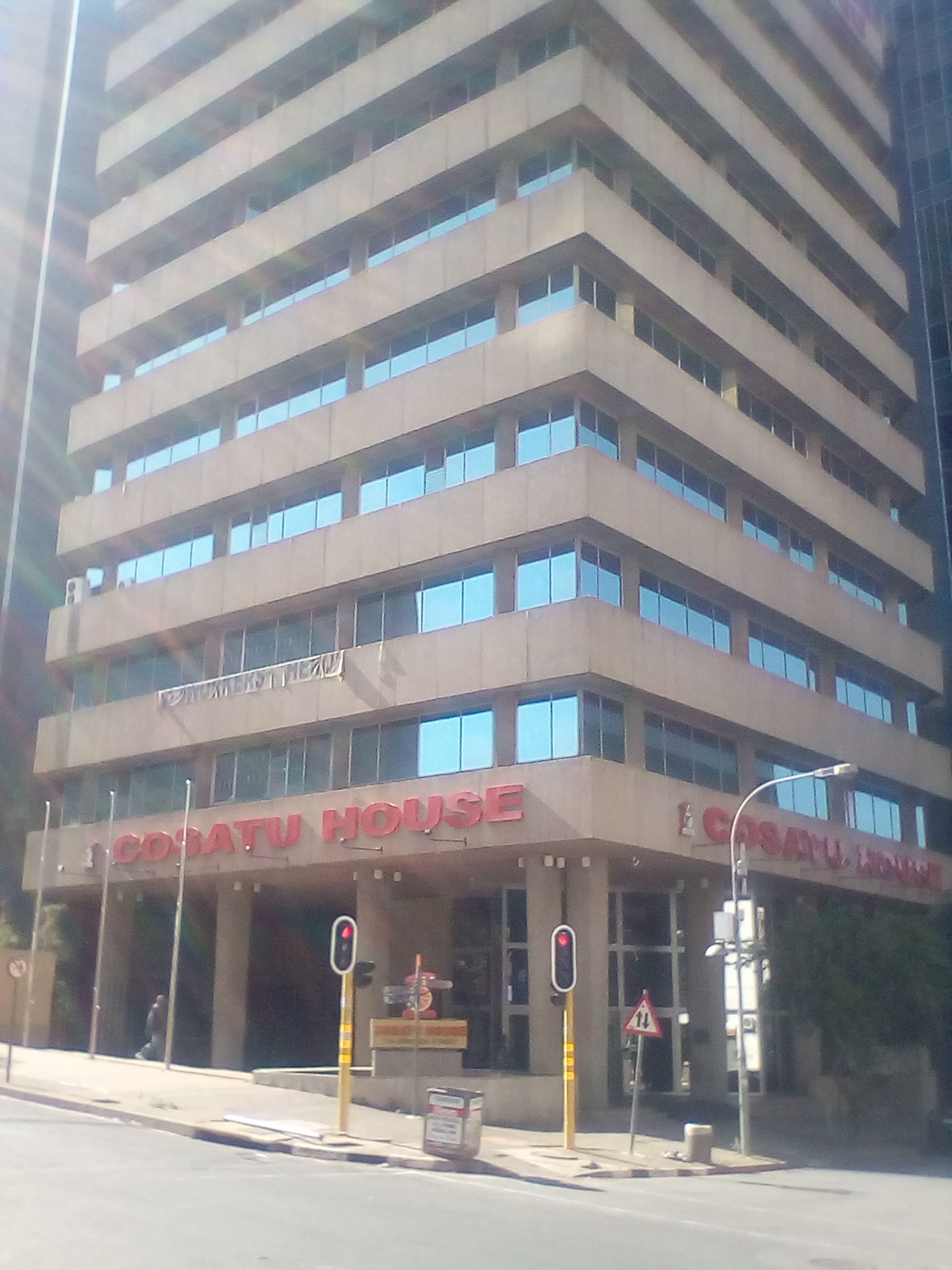 A picture of Cosatu houses in braamfotein.